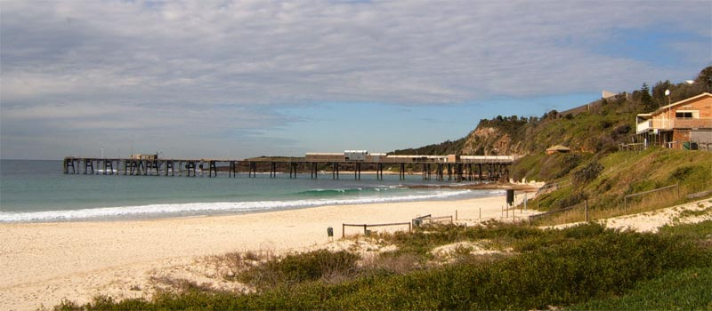 Catherine Hill Bay beach and coal loading wharf. Surf club building on right.